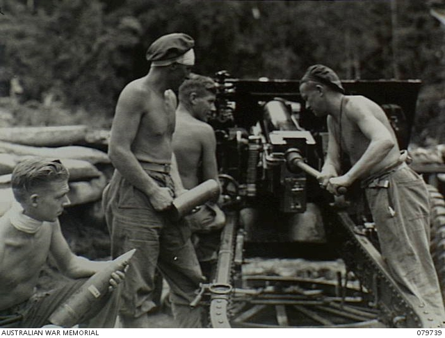 Members of the Australian 4th Field Regiment, Royal Australian Artillery, fire a 25 pounder from Pearl Ridge, Bougainville.